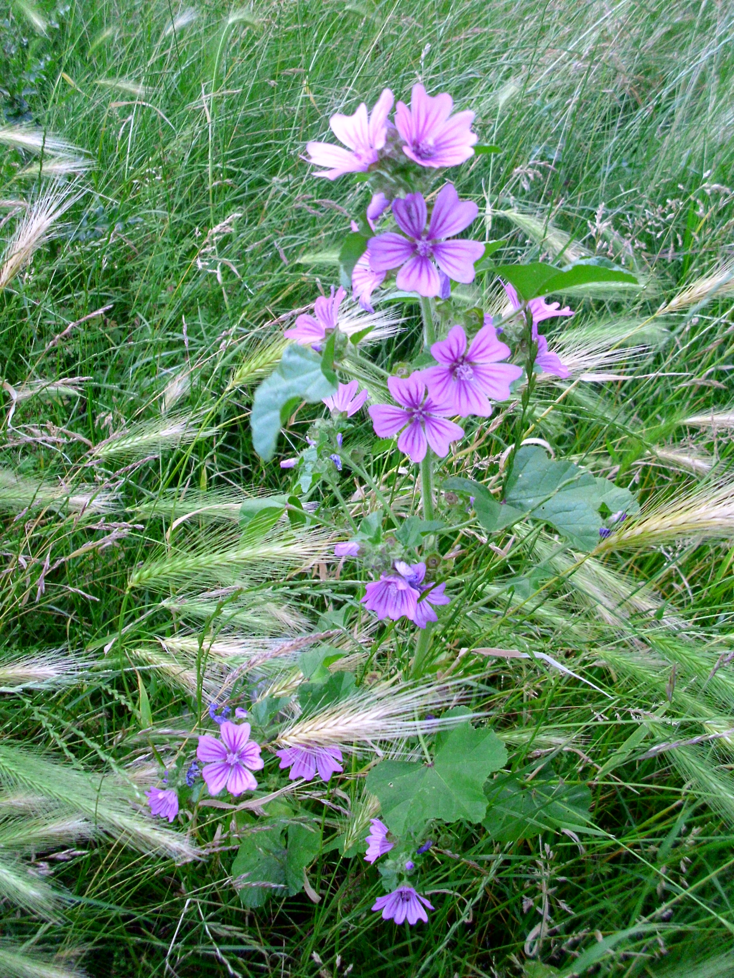 Unidentified Malva